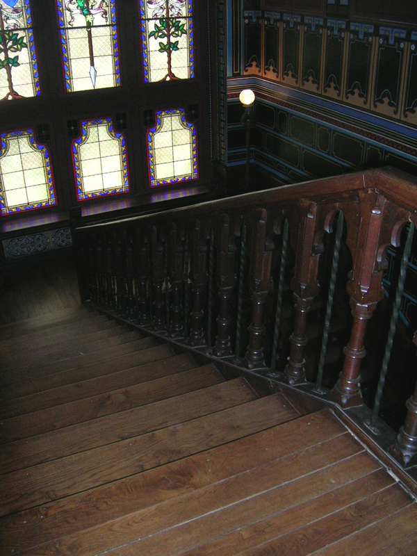 Main stairs of Abbadia castle, Hendaye (France)